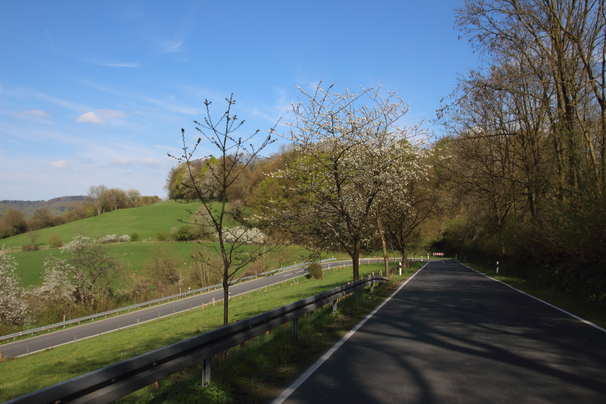 "Rühler Schweiz", state road "Landesstraße 580" between villages Rühle and Golmbach, uppermost hairpin bend in north ramp